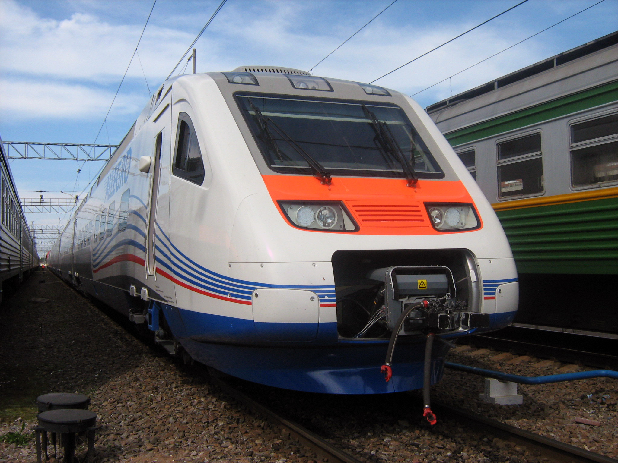 VR Class Sm6 Allegro train